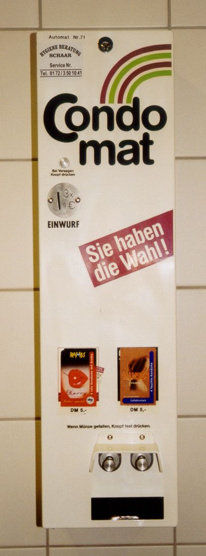 Condom vending machine in the toilet of the new trade fair buildings in Dresden. Red sign translates as "You have the choice!"